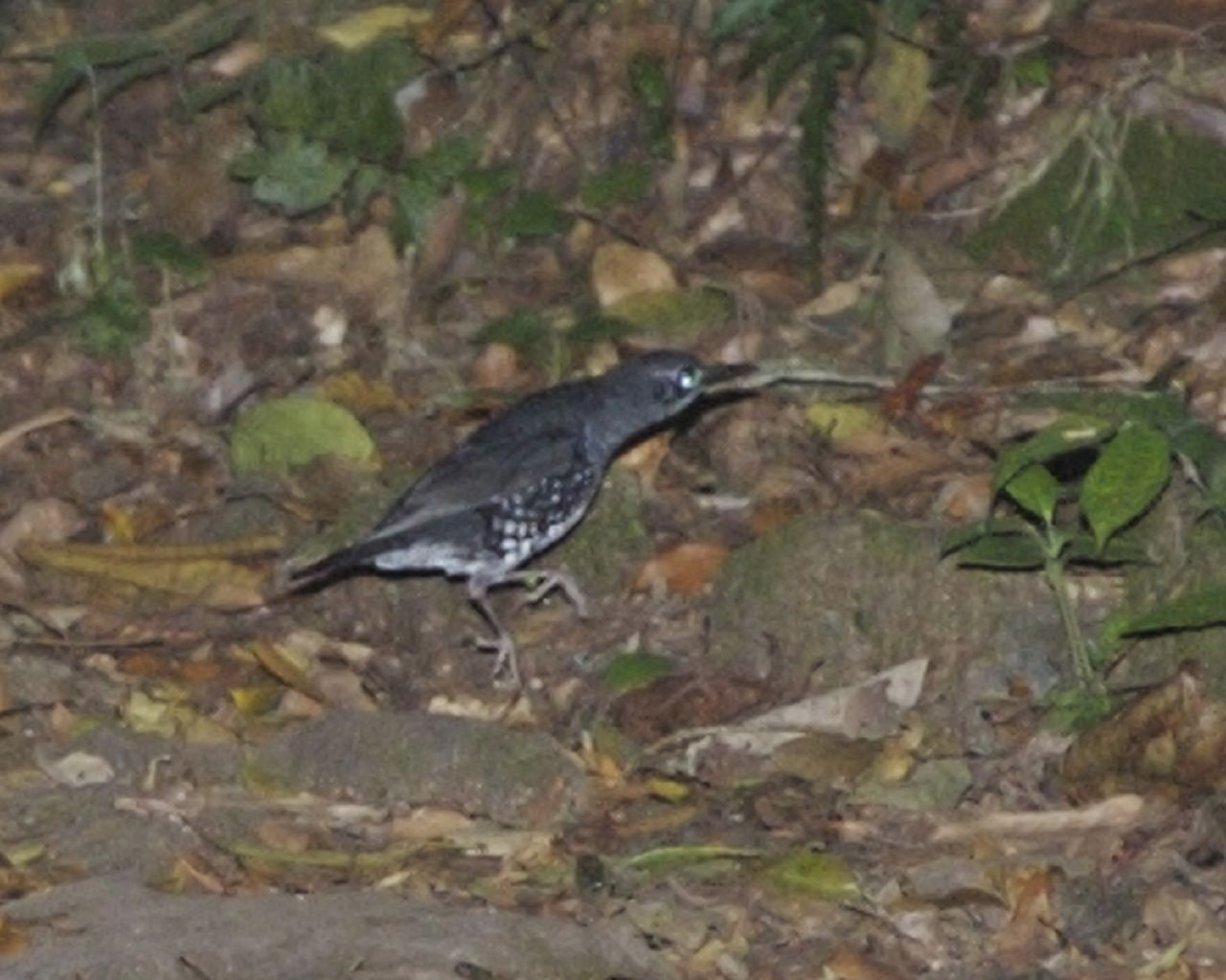 Sunda thrush Zoothera andromedae Local name: Indonesian: Burung anis hutan 11th. August 2007 Location : Gunong Gede, Java, Indonesia Distribution: _Q0S8446